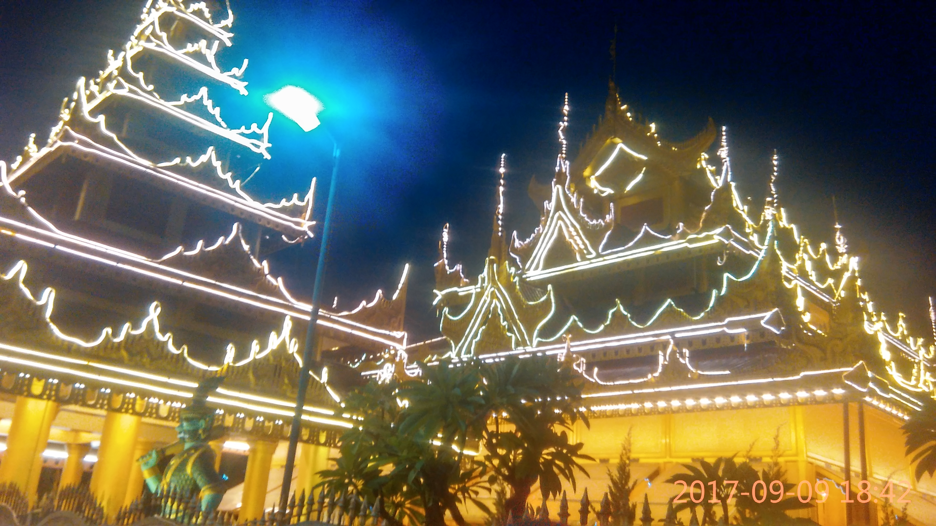 Lighting View of Kyauk Taw Gyee မြန်မာဘာသာ: မန္တလေးမြို့ရှိ ကျောက်တော်ကြီးဘုရားမြင်ကွင်းကို ညအချိန် မီးရောင်စုံတို့ဖြင့် မြင်တွေ့ရပုံ။